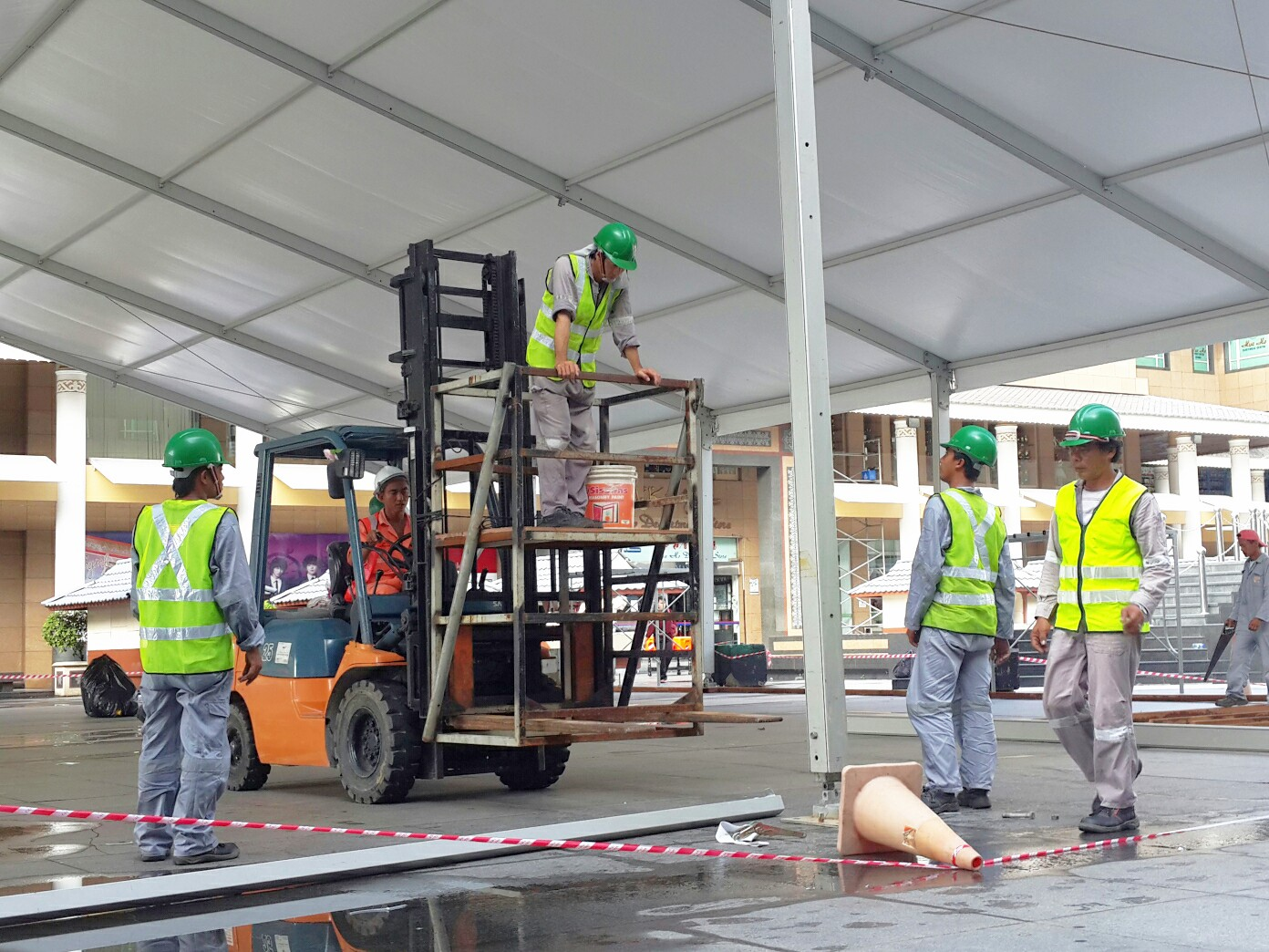 These guys are assembling the tent for an event the at the capital city of Brunei. Taken on 19 January 2014 by